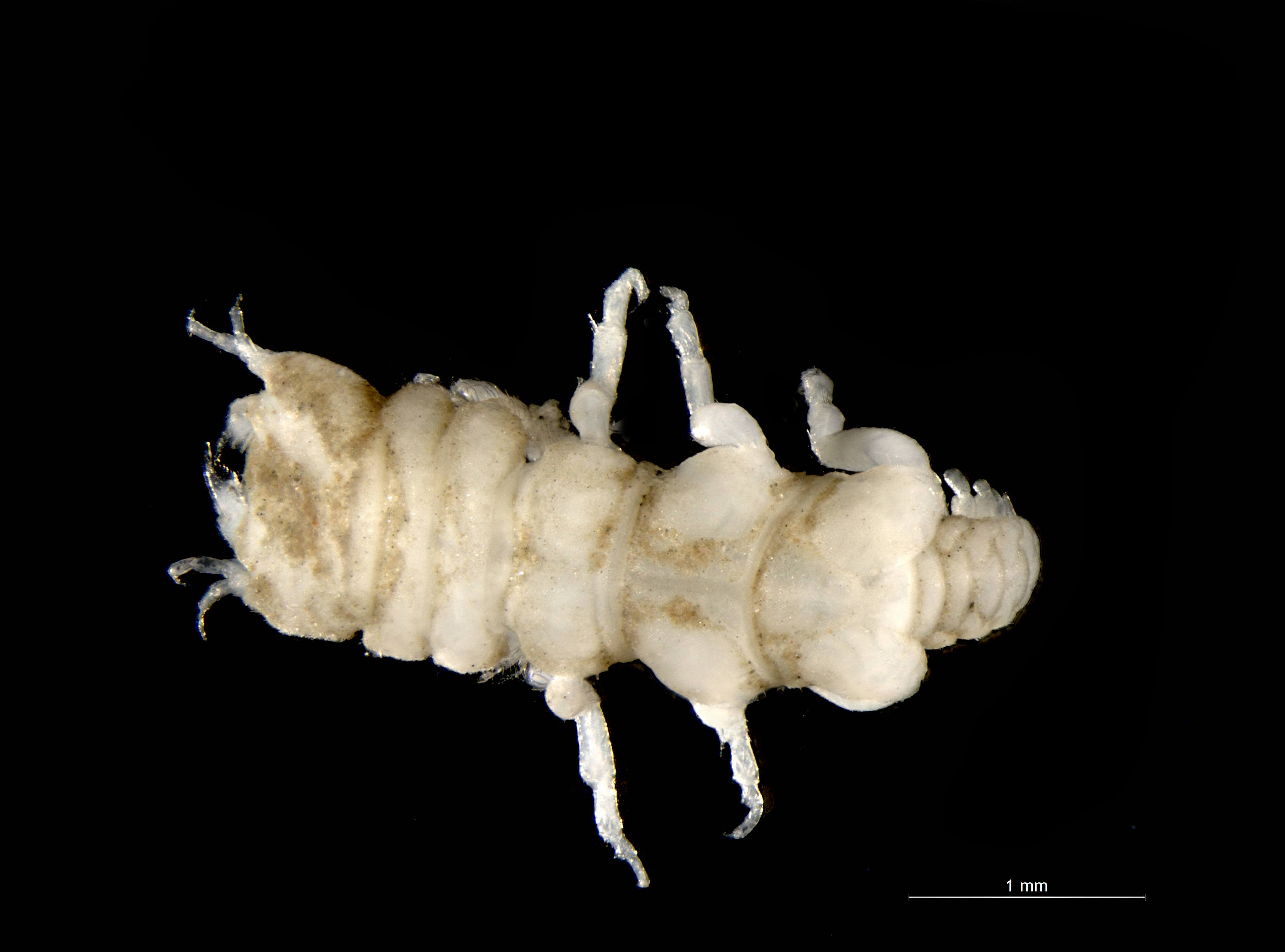 Dorsal view of a male gnathiid isopod, taken with a Leica DFC 490 camera mounted on a Leica M205C binocular microscope. Collected near Wimereux, France in 1987.Width = ~4 mmFocus stacking of 30 pictures.